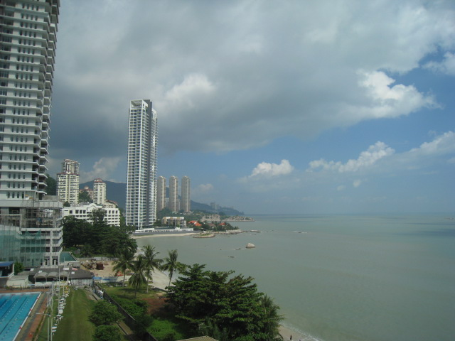 Gurney Drive as seen from a building in 18th Persiaran Gurney